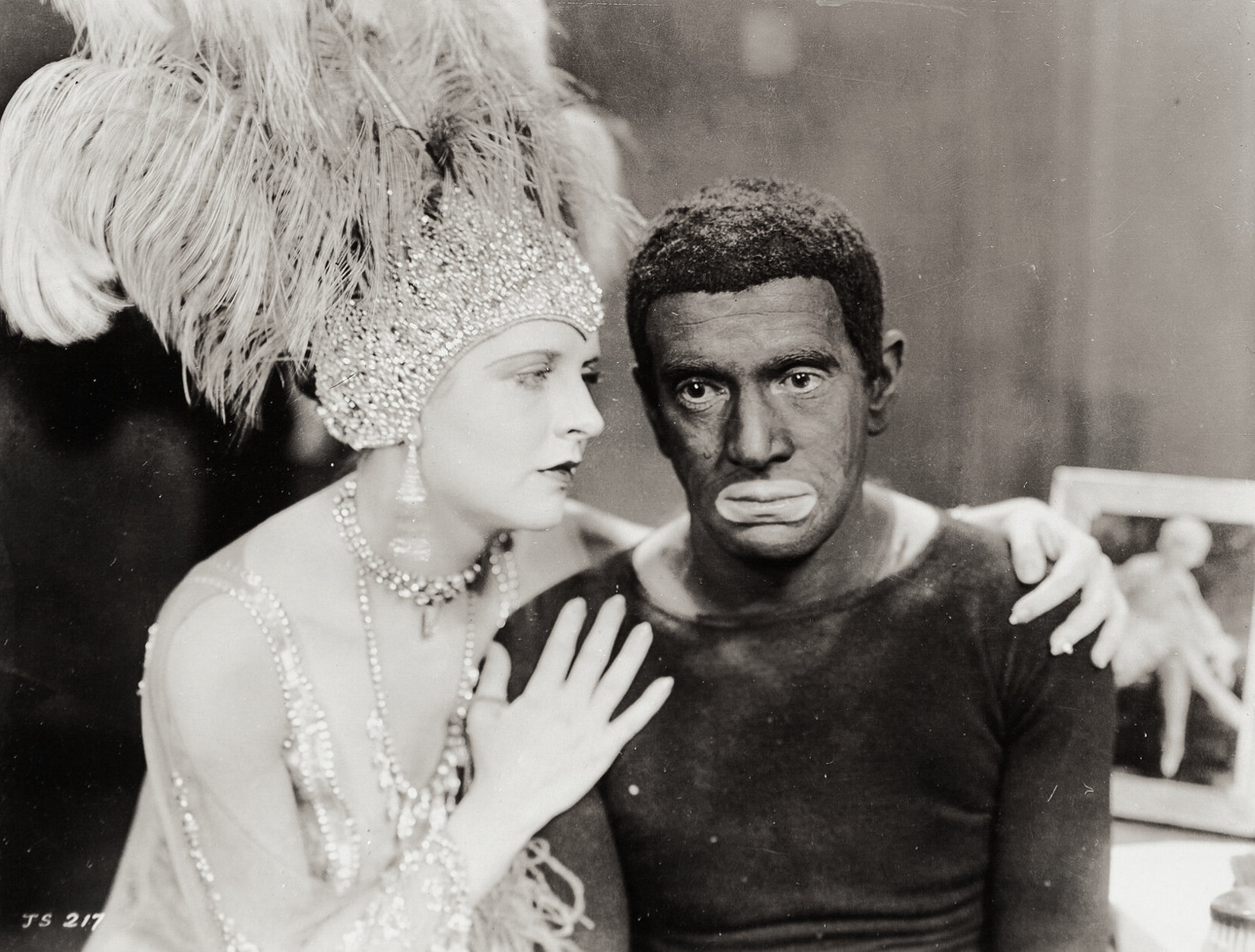 Description: Warner Bros. publicity photo for the film The Jazz Singer (1927), featuring stars May McAvoy and Al Jolson Source: Scan from private collection Original publisher/holder of property rights: Warner Bros. Public domain explanation The image was distributed as a promotional photograph in the U.S. in 1927 for use by the general media, satisfying the definition of "publication." There is no evidence that it was distributed with copyright notice, as then required for copyright protection. A search of copyright renewal records for 1954 and 1955 ([1], [2], [3], [4]) reveals that no renewal was filed as would have been required to maintain copyright protection, if any, on any bound collection of material that might encompass this photograph. There is no evidence that the work's corporate author claims copyright on the image.